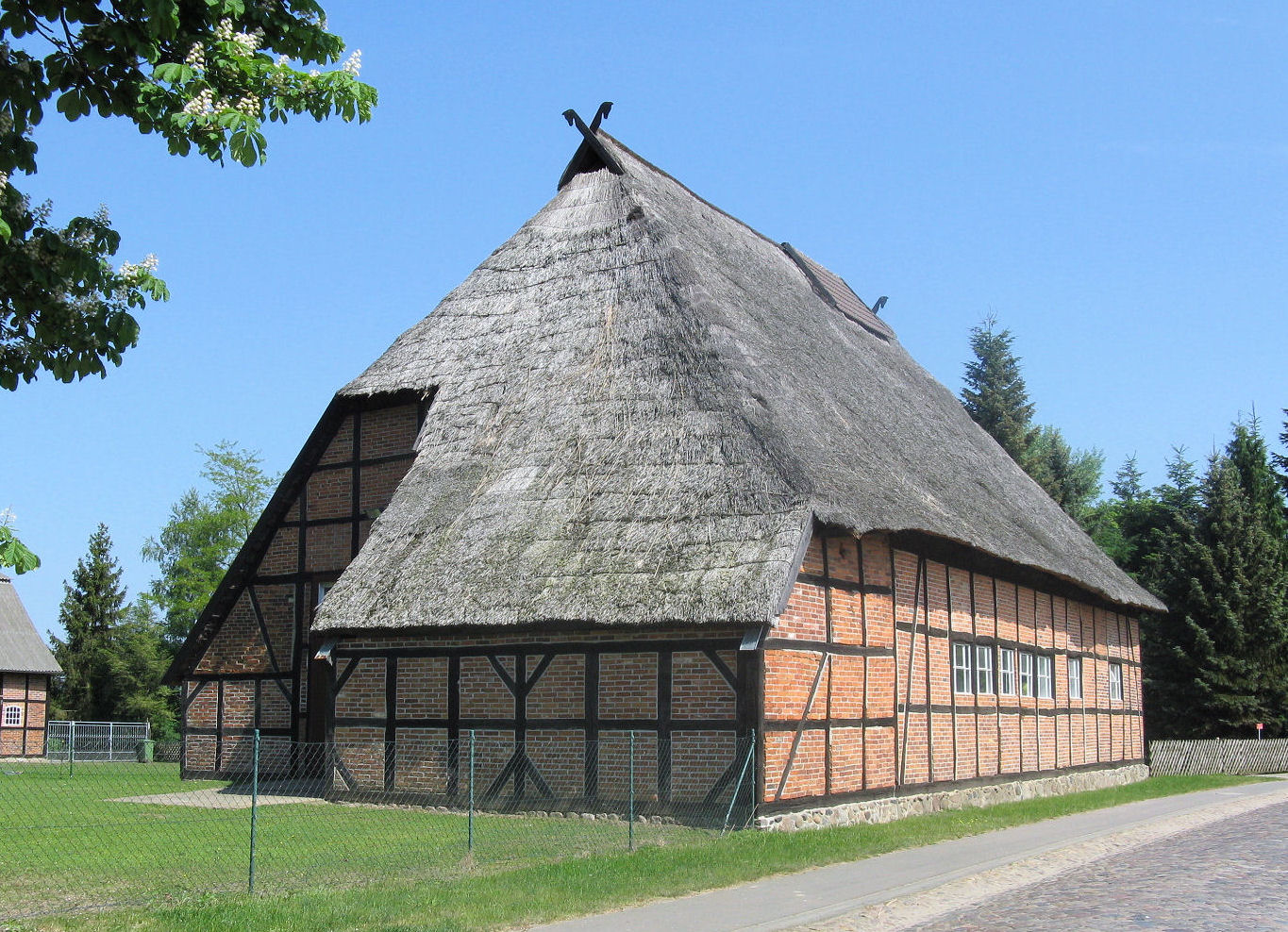 Timber framed barn in Kogel, district Ludwigslust-Parchim, Mecklenburg-Vorpommern, Germany